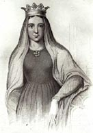 Matilda of Boulogne, consort of King Stephen of England.